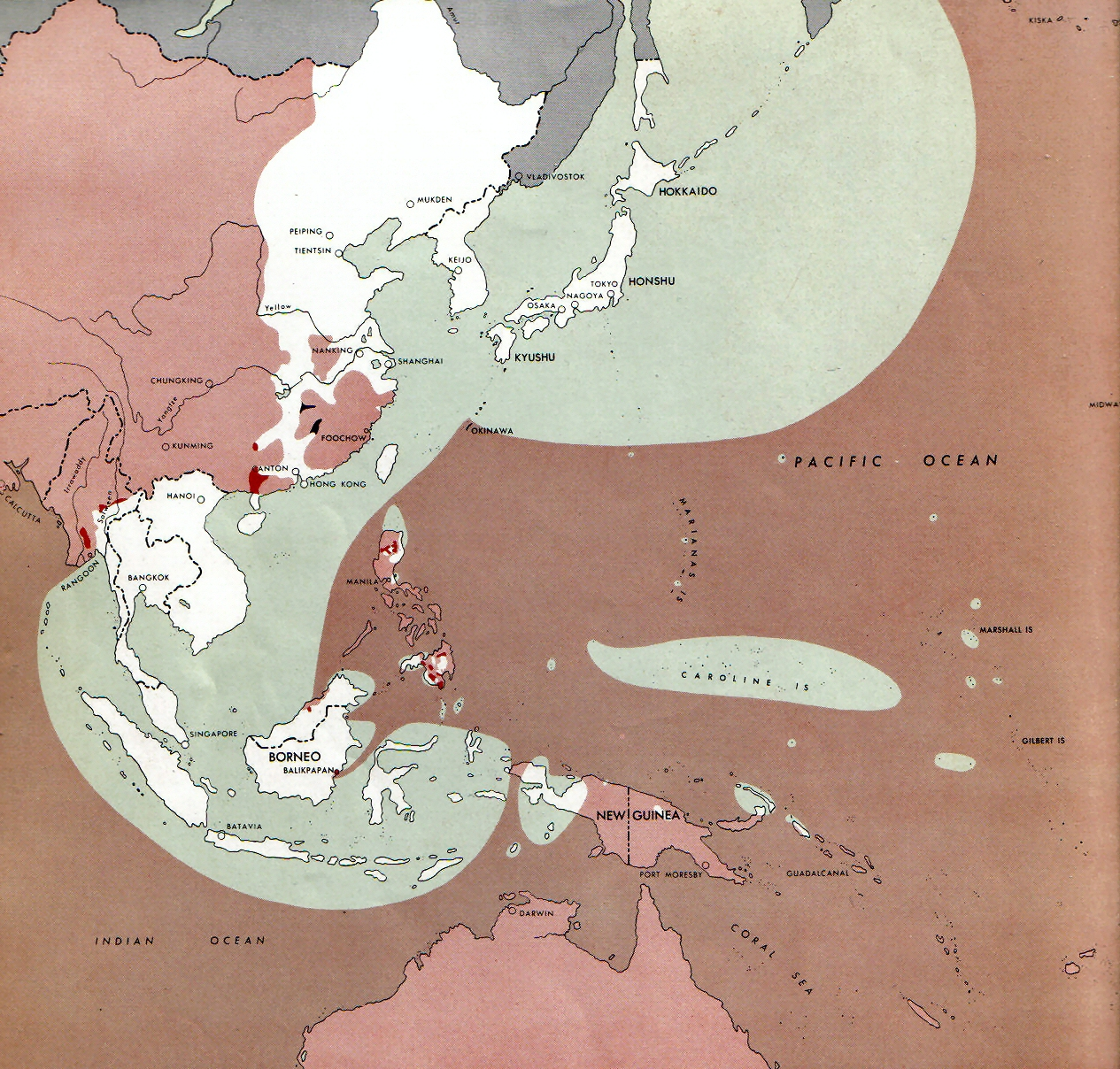 Map of the front against Japan as of 1 Aug 1945: This map is taken from the source "Atlas of the World Battle Fronts in Semimonthly Phases to August 15th 1945: Supplement to The Biennial report of The Chief of Staff of the United States Army July 1, 1943 to June 30 1945 To the Secretary of War". (See Cover, Forward and Map details)